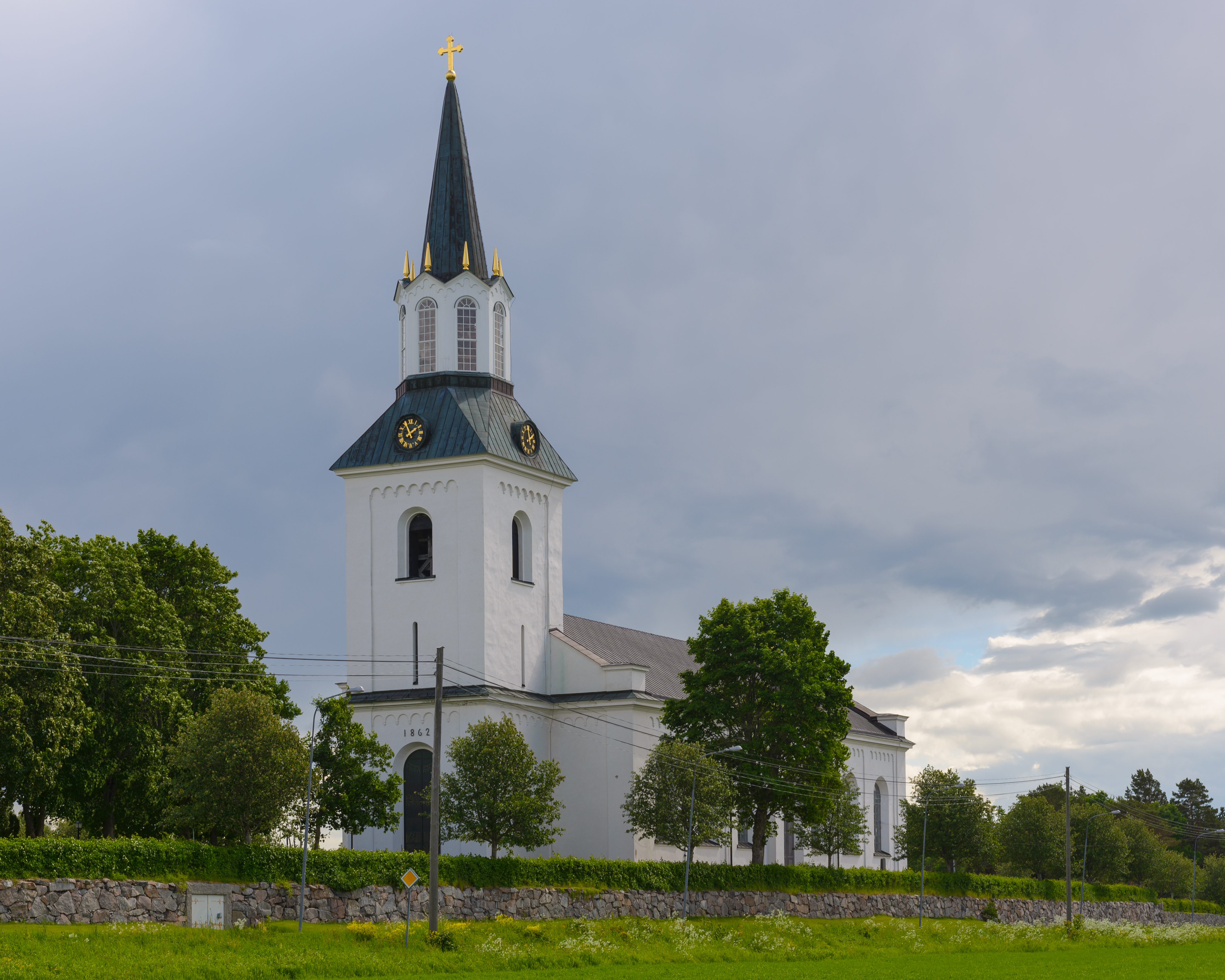 Västlands kyrka (church), Tierp Municipality. Västlands parish, Archdiocese of Uppsala, Church of Sweden.